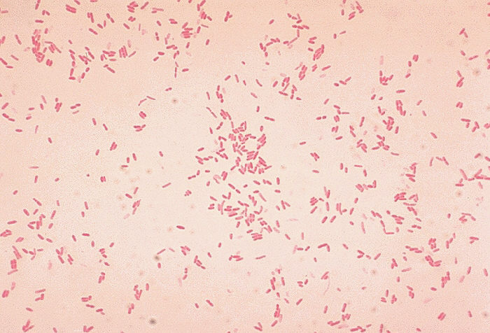 Aeromonas hydrophila. Gram stain.